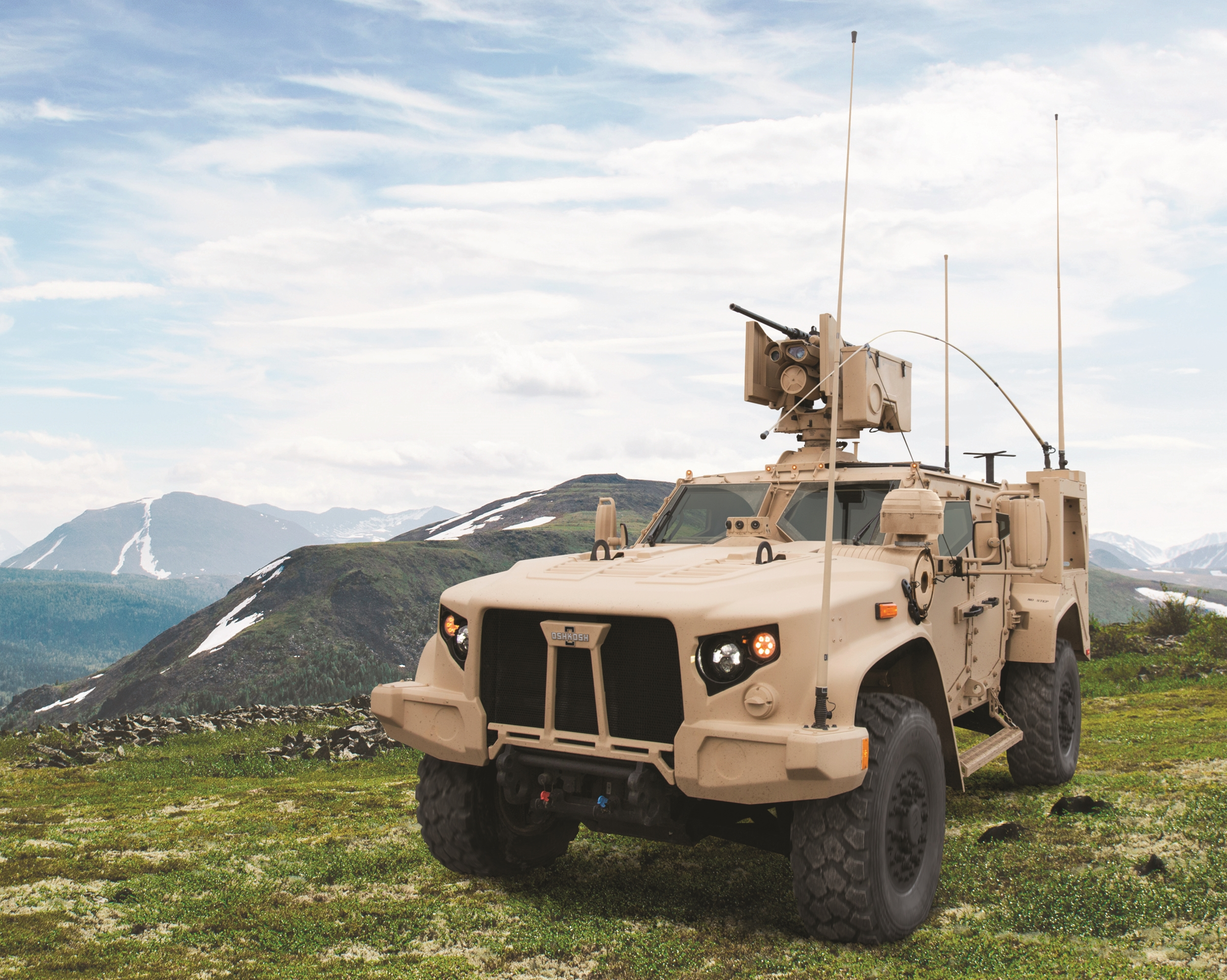 Oshkosh L-ATV (configured as JLTV) with M153 CROWS II remote weapon station mounting improved M2A1 .50 cal Browning heavy machine gun